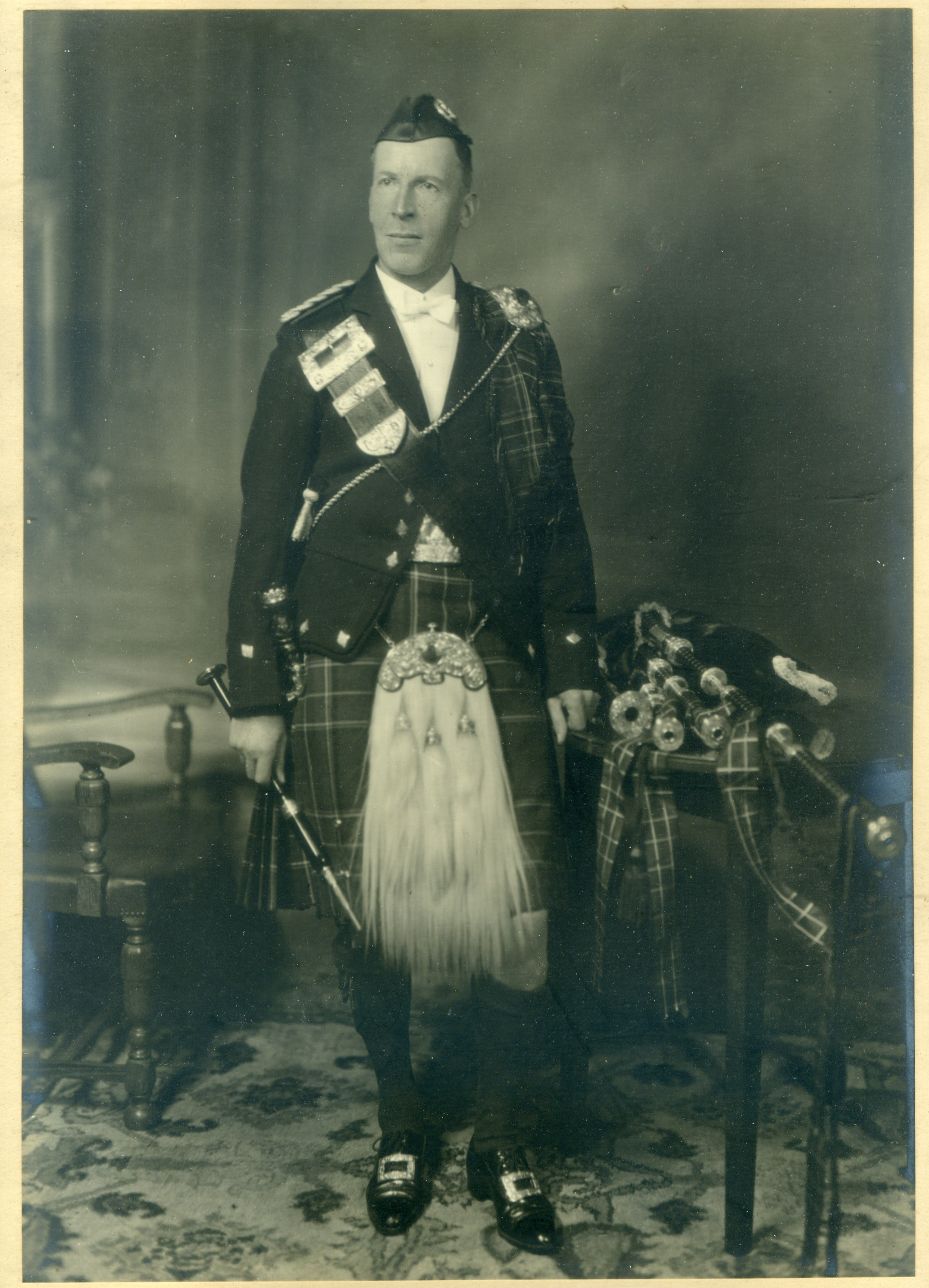 Pipe Major John Grant c. 1911 with his Henderson pipes